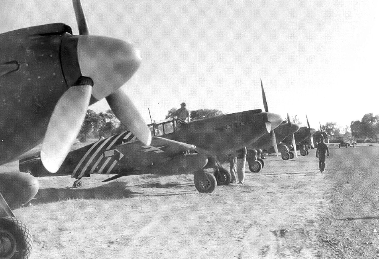 1st Air Commando Group P-51A Mustangs on the line at a rough airstrip